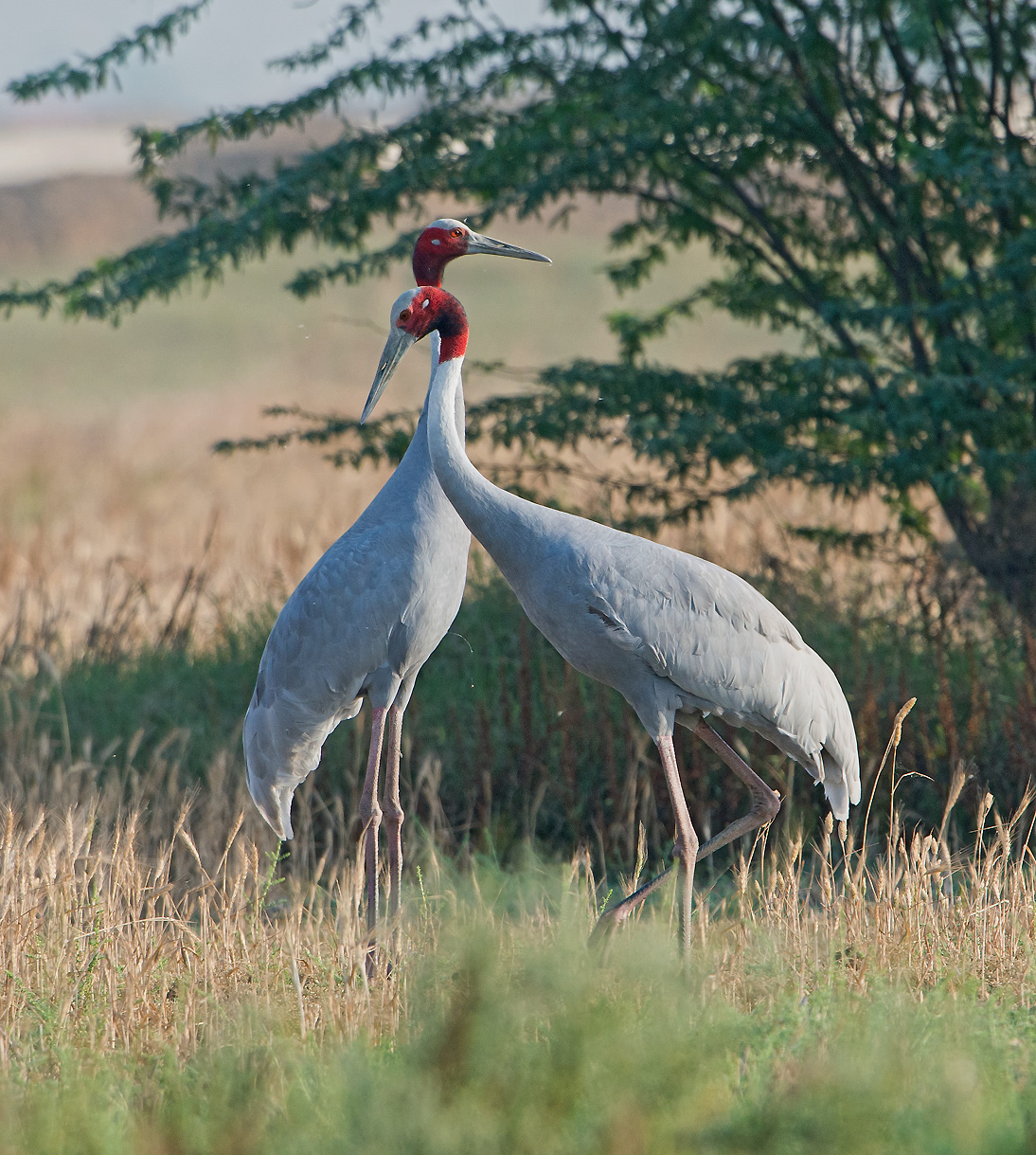 Sarus Crane ( Grus antigone) is the tallest flying bird on earth and is a common resident of marshes and shallow wetlands in India. They pair for life and myth has it that if one of the pair dies, the other will starve itself to death. The Saraus Crane has always been highly venerated by the Hindus and there are mentions of these birds in ancient scriptures and other books. The courtship calls and displays of the Sarus pairs just before the onset of Monsoons are very romantic treats in the Indian countryside. This pair was seen in Basai on the outskirts of Gurgaon the Cyber Suburb of New Delhi.